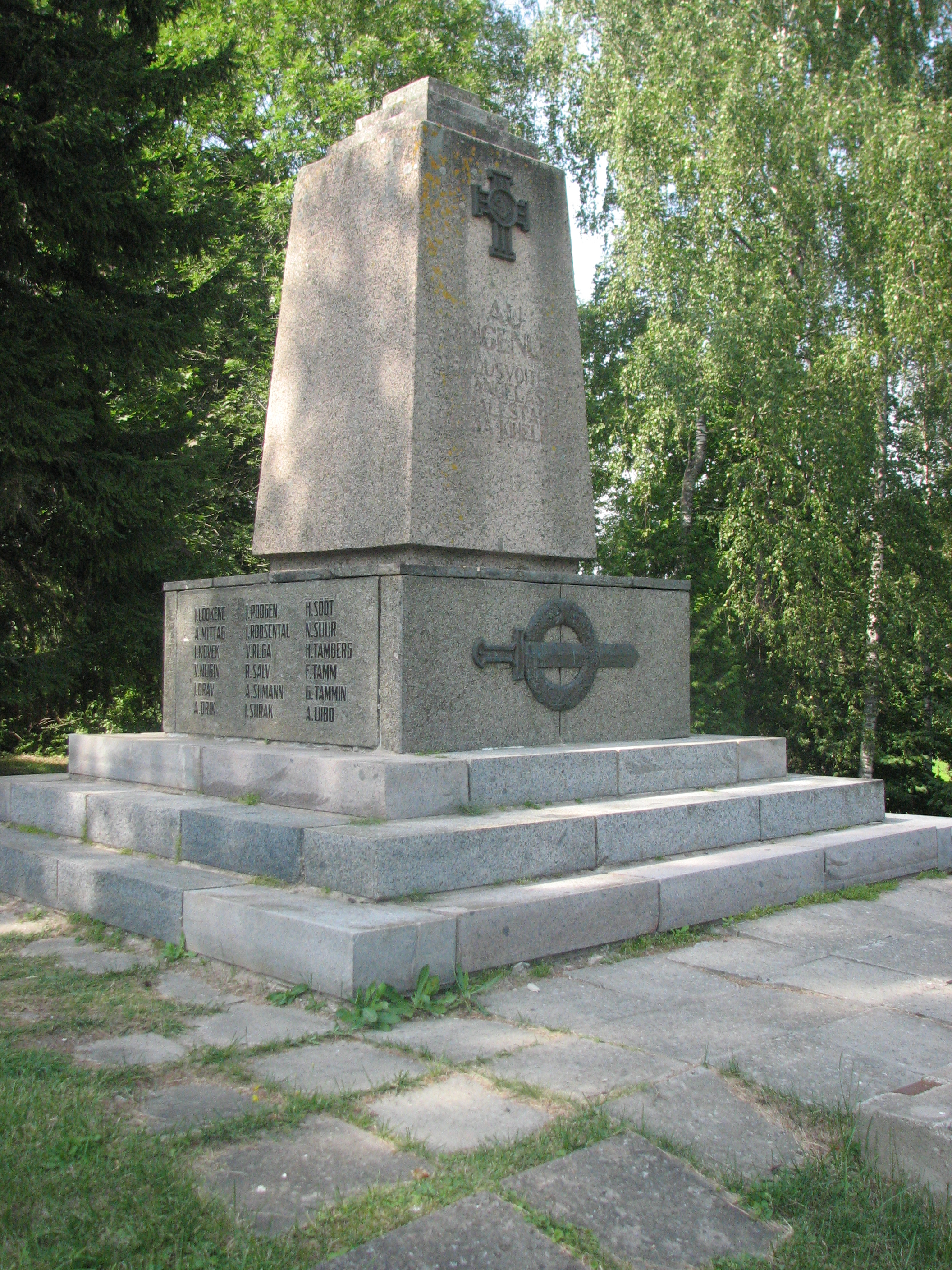 Statue of Estonian War of Independence in Otepää, Estonia